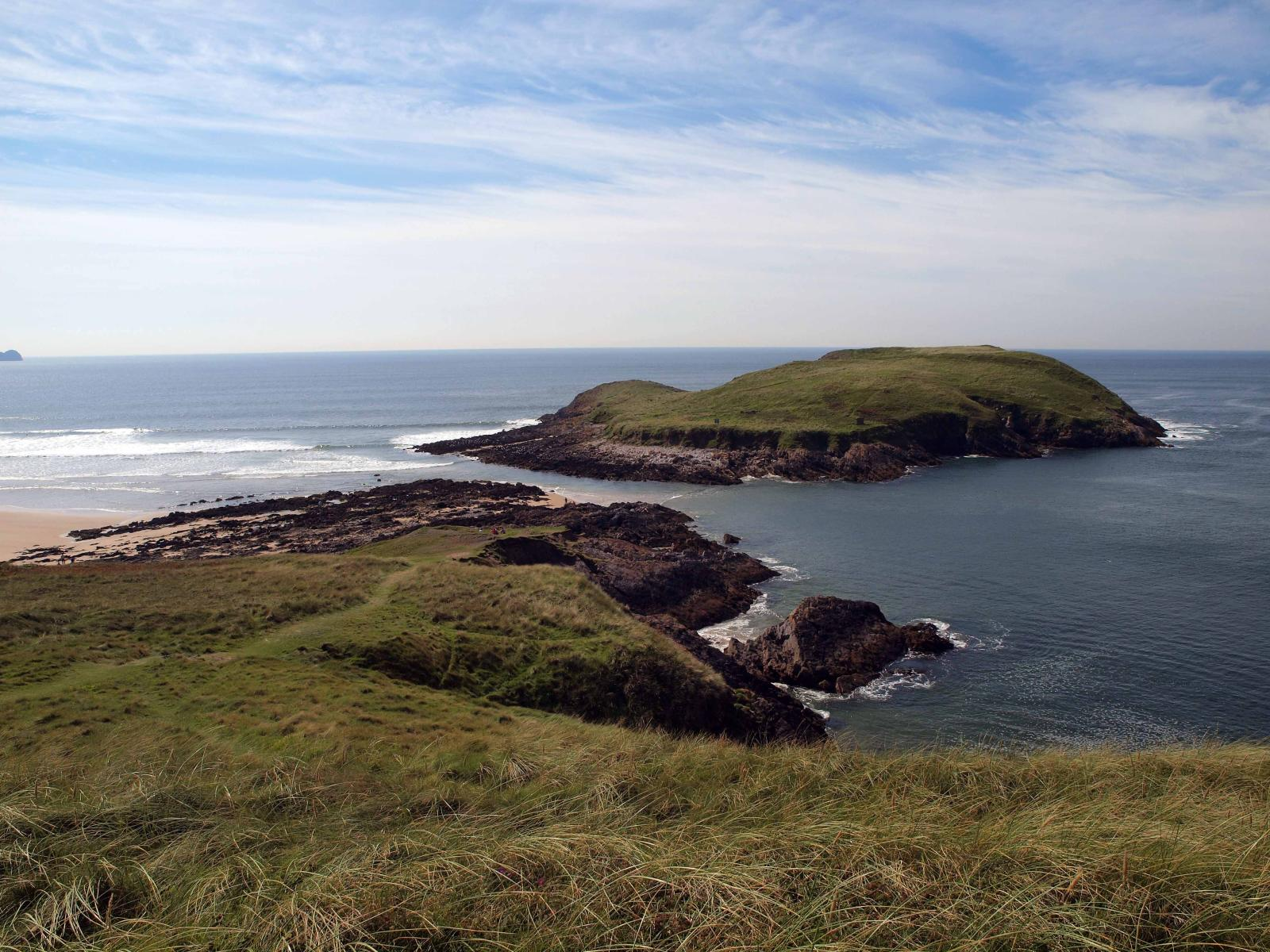 127 Burry Holms